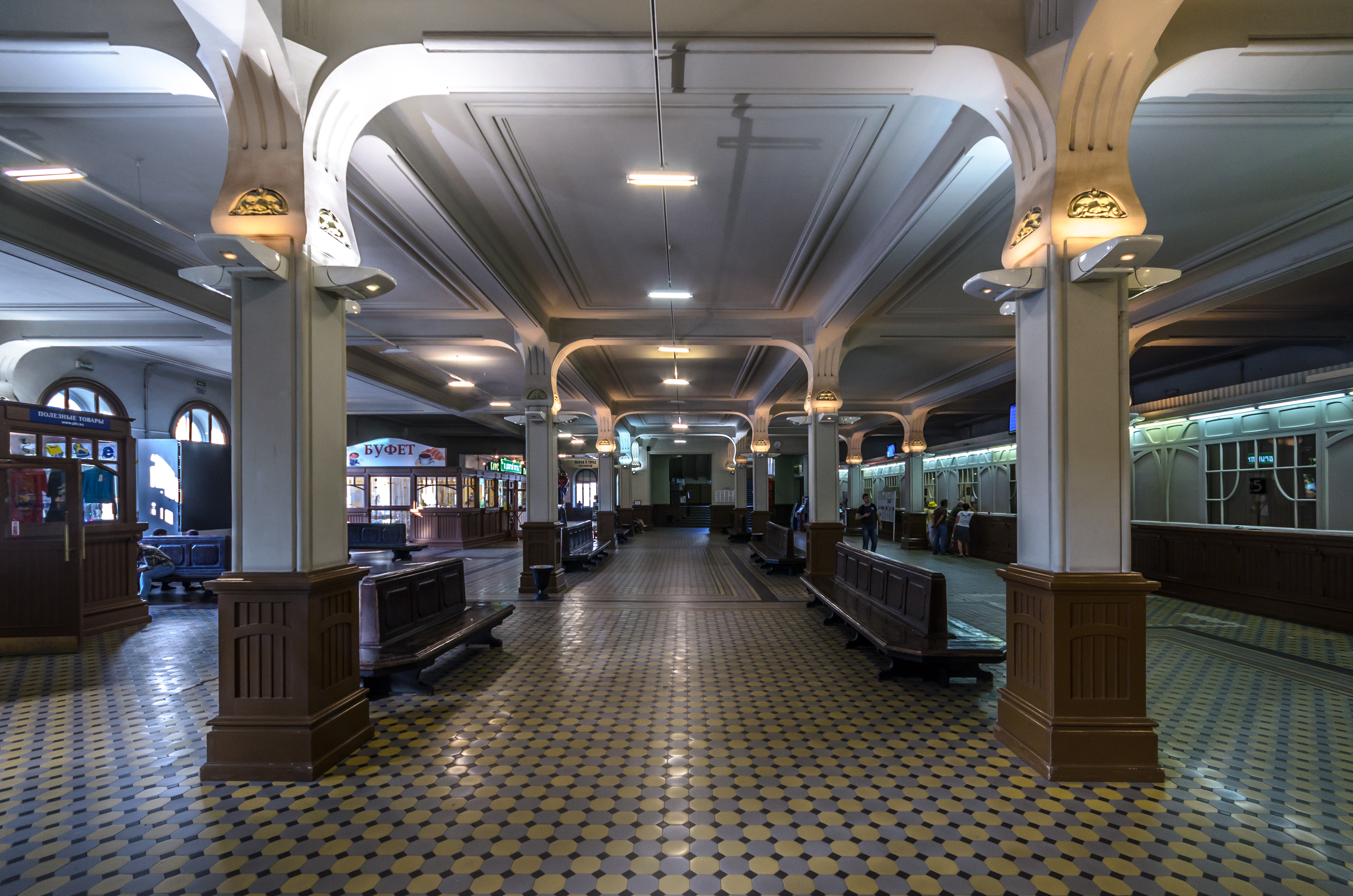 Vitebsky Rail Terminal in Saint Petersburg, Tickets and Waiting Hall